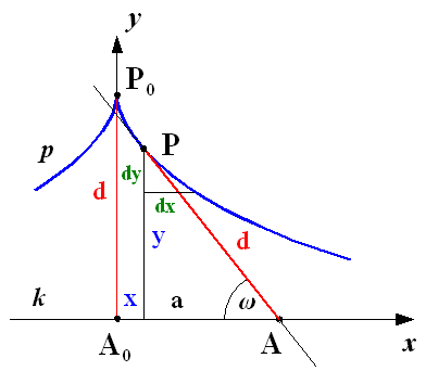 Tractrix, sketch lettered, colour